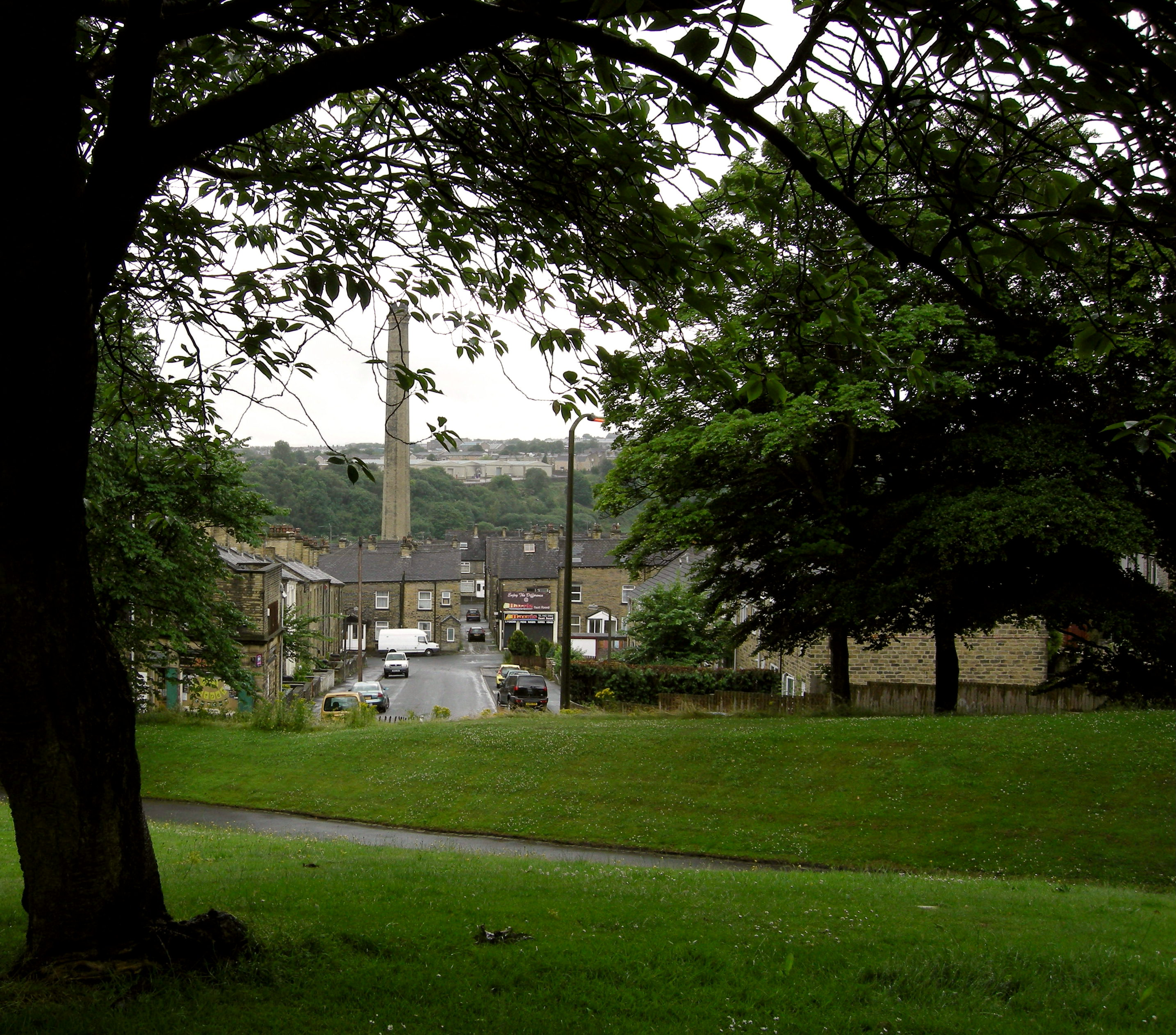 View of part of Halifax from Ackroyd Park, next to Bankfield Museum, Halifax, West Yorkshire, England. 53.43'.57".N; 1.51'.48".W.